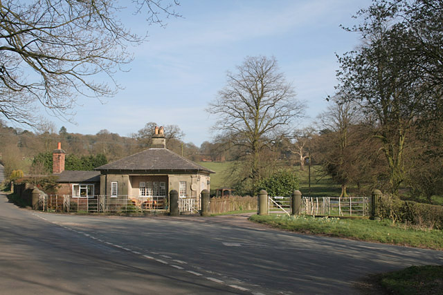 The Front Lodge, Heath House, Upper Tean A thoroughly typical entrance to a country mansion.